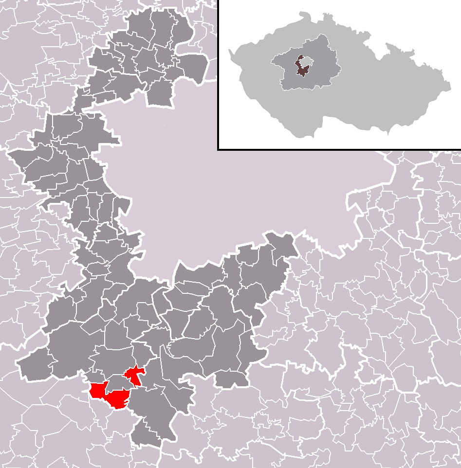 Location of Bojanovice municipality within Prague-West District and administrative area of Černošice as a Municipality with Extended Competence.